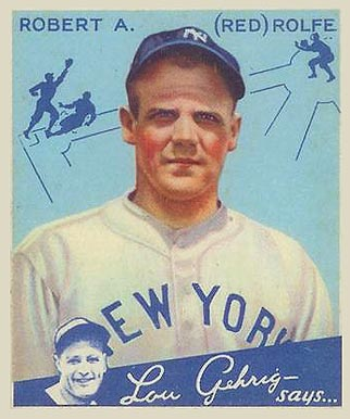 1934 Goudey baseball card of Red Rolfe of the New York Yankees #94. PD-not-renewed